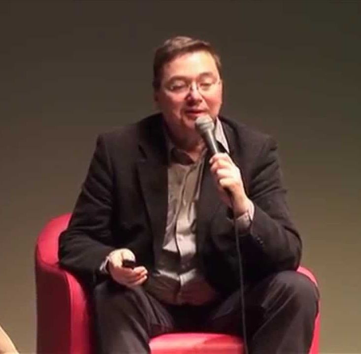 Jean-Louis Fabiani speaking at the Colloque Culture et Démocratie in January 2014, held at the L'association Maison de la Culture du Havre. Title of the presentation is "Le désenchantement du monde culturel et la redéfinition d'une sphère culturelle publique"